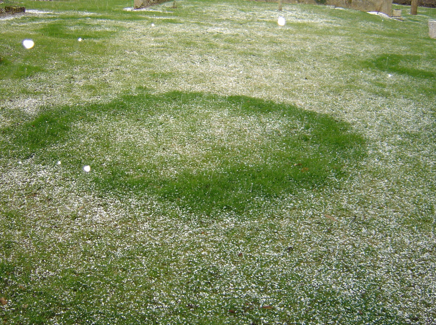 Fairy rings marked by uneven grass growth